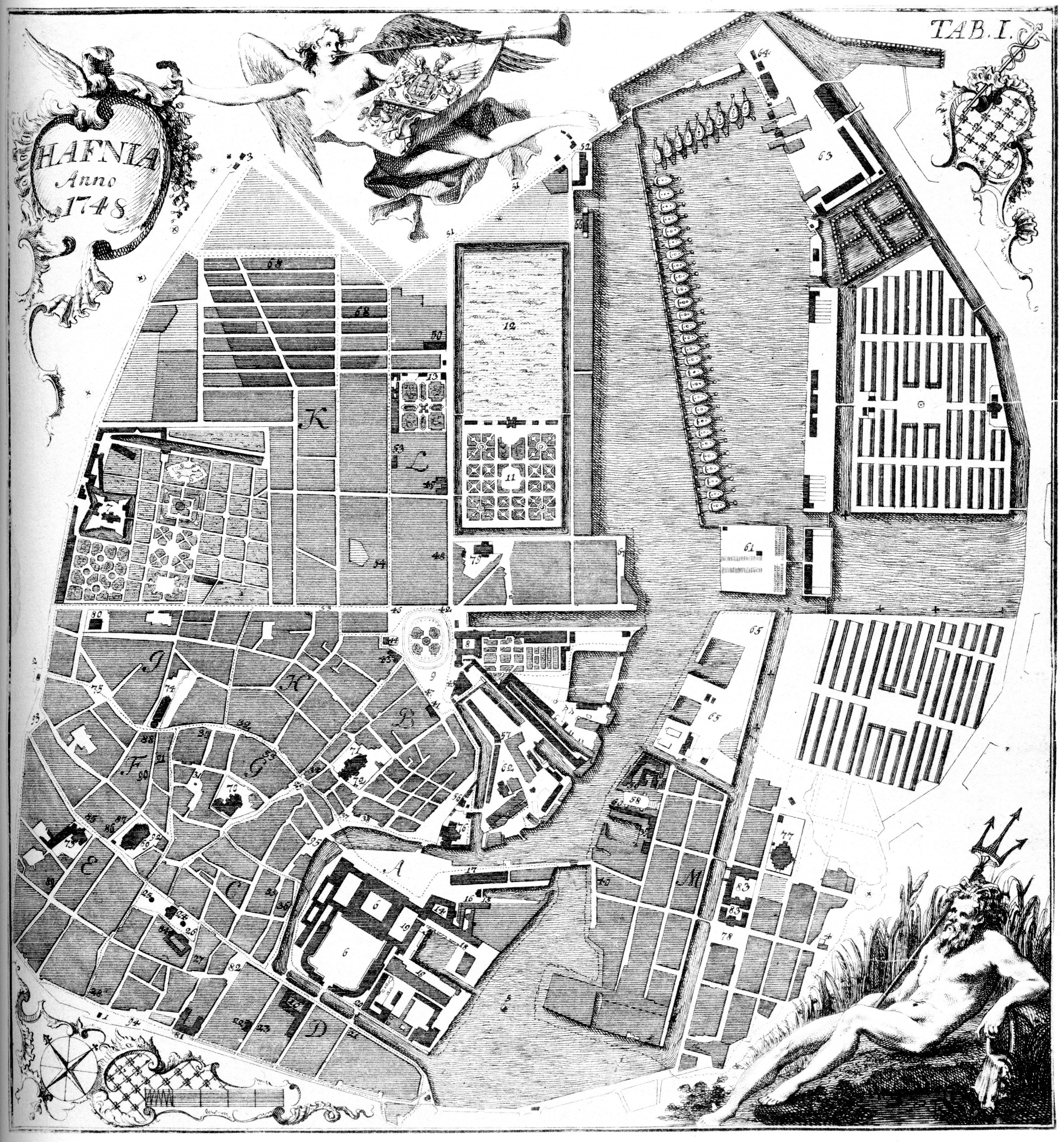 From Hafnia Hodierna by Laurids de Thurah, 1748. Drawings of Copenhagen. Tab. 1. Map of Copenhagen 1748.